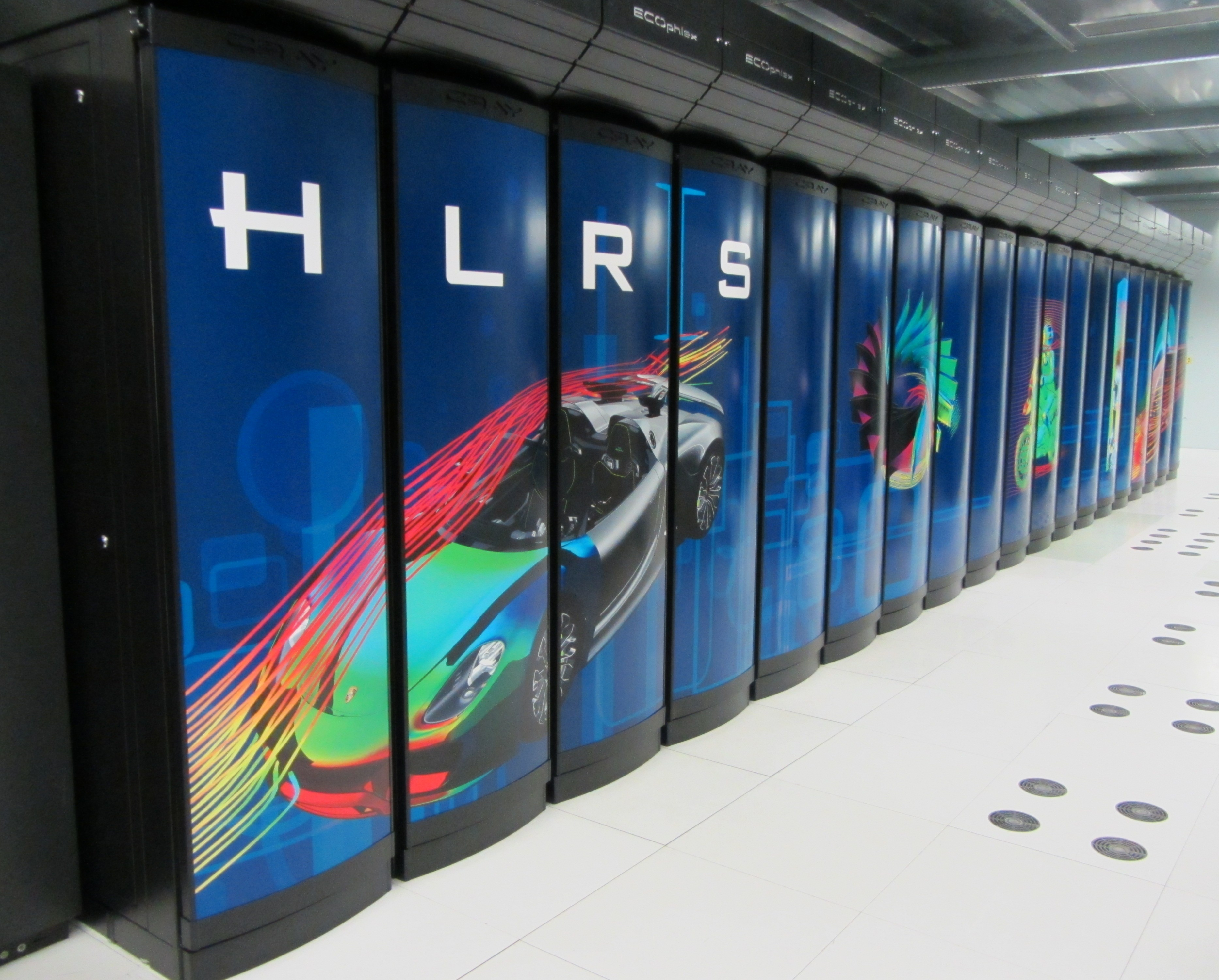 Cray XE6 supercomputer in the High Performance Computing Center, Stuttgart. Photo taken with permission at the "Tag der Wissenschaften" (Science Day) of the University of Stuttgart.